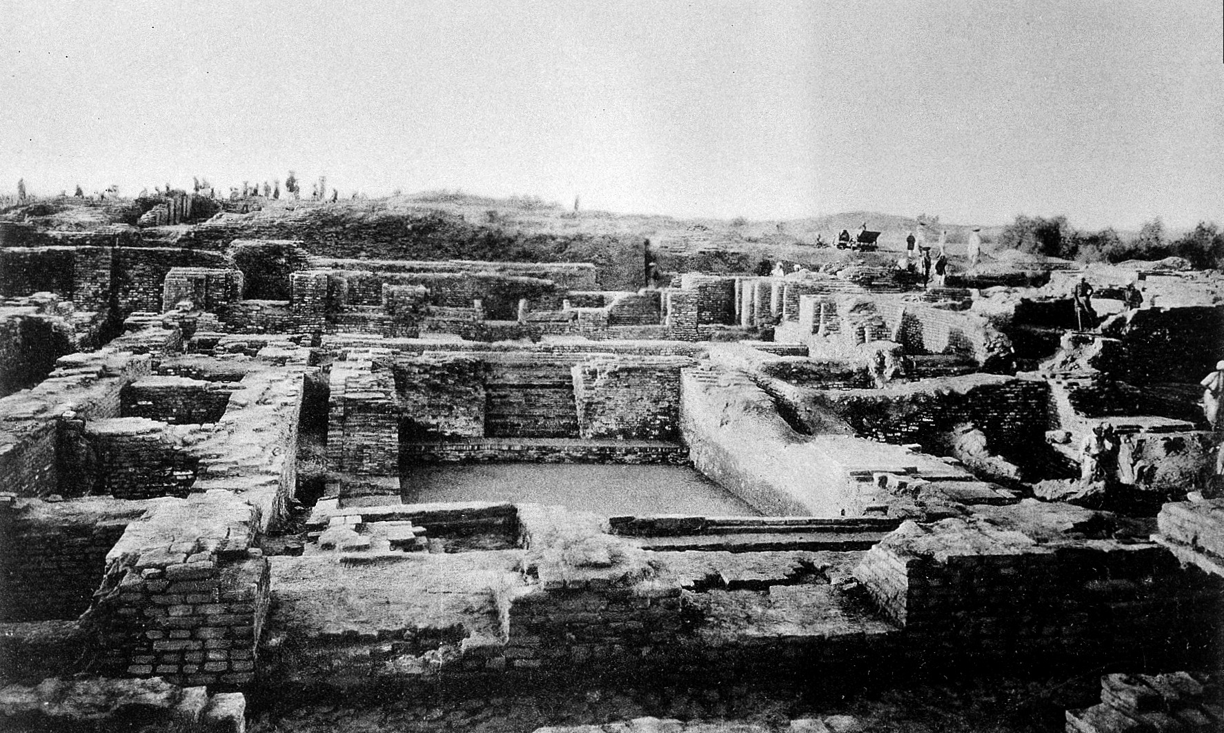 The Great Bath at Mohenjo-daro. General Collections Keywords: Balneology